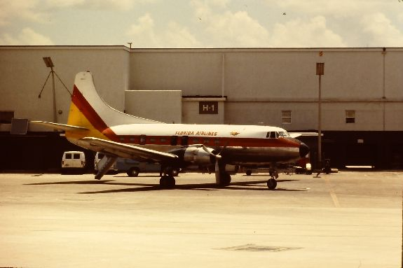 Manufacturer: Glenn L Martin Company Designation: Martin 4-0-4 Airline: Florida Airlines